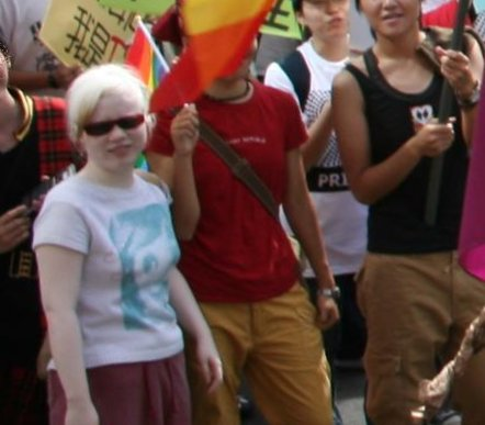 An albinistic young woman at a public gathering, 2005-10-01, Tun Hwa South Road, Taipei city, Taiwan; others have been left partially in the photo for contrast.